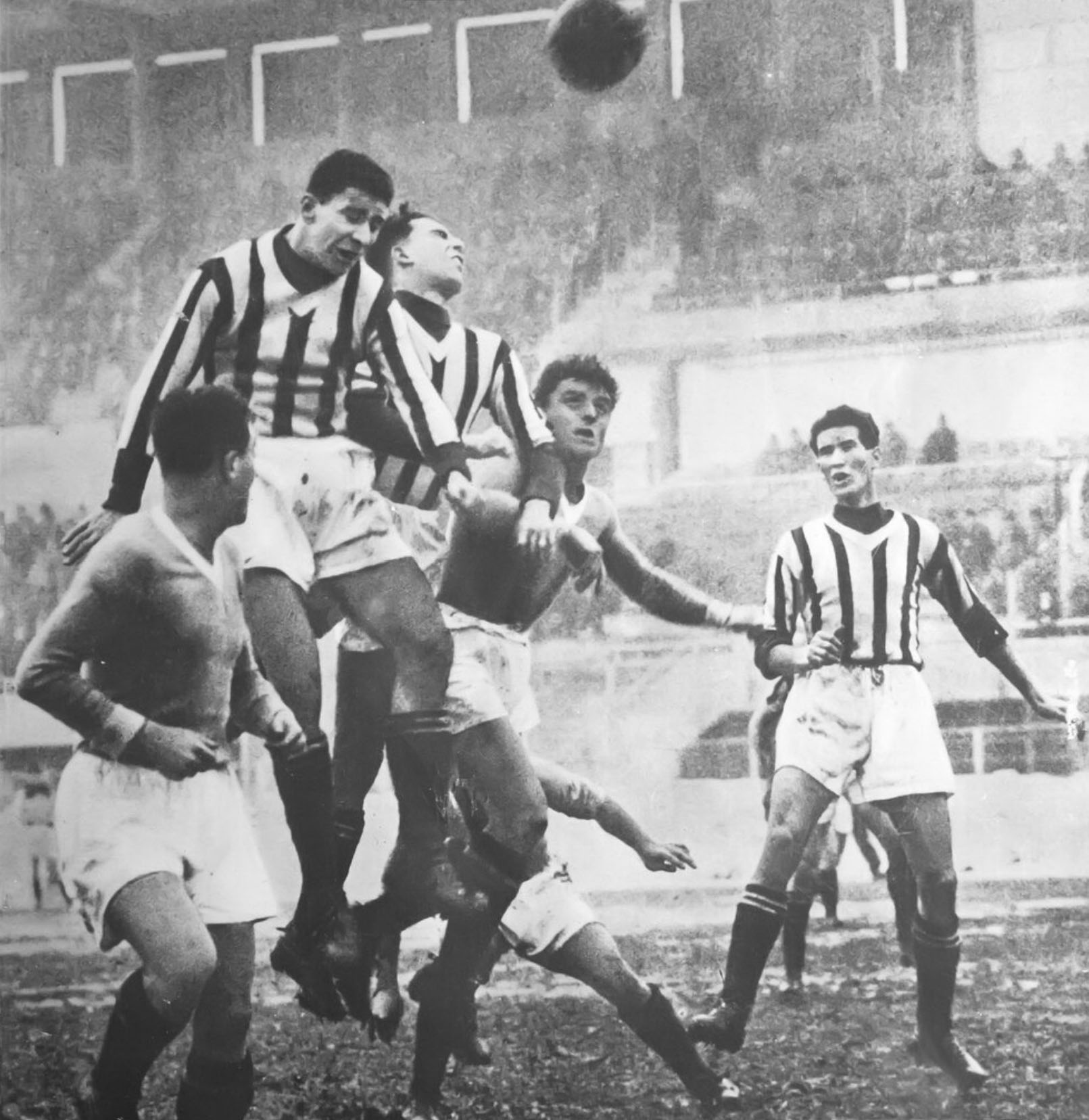 Turin, "Benito Mussolini" Municipal Stadium, January 31, 1937. Juventus — A.C. Napoli 2-0, 18th round of the Italian Championship 1936–37 Serie A.